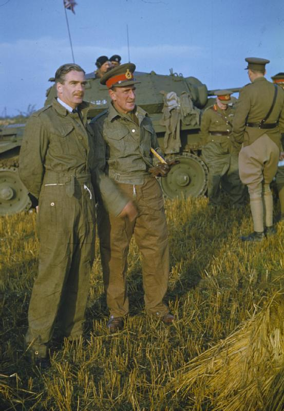 42nd Armoured Division Exercise, Near Malton in Yorkshire, 29 September 1942 The Secretary of State for Foreign Affairs, Mr Anthony Eden with the Commander in Chief Home Forces, General Sir Bernard Paget watching the 42nd Armoured Division exercises.